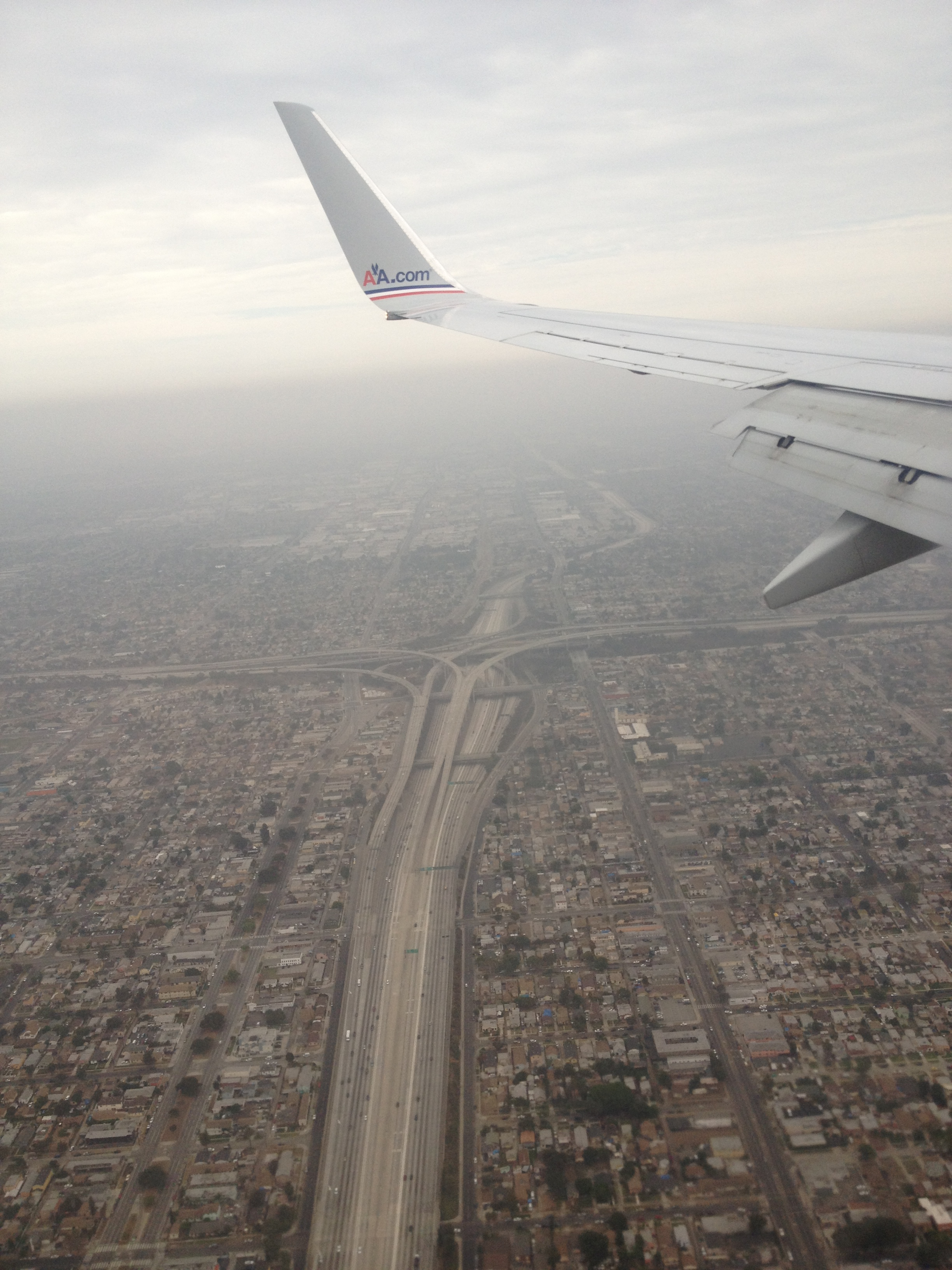 Interchange of Interstate 110 and 105.